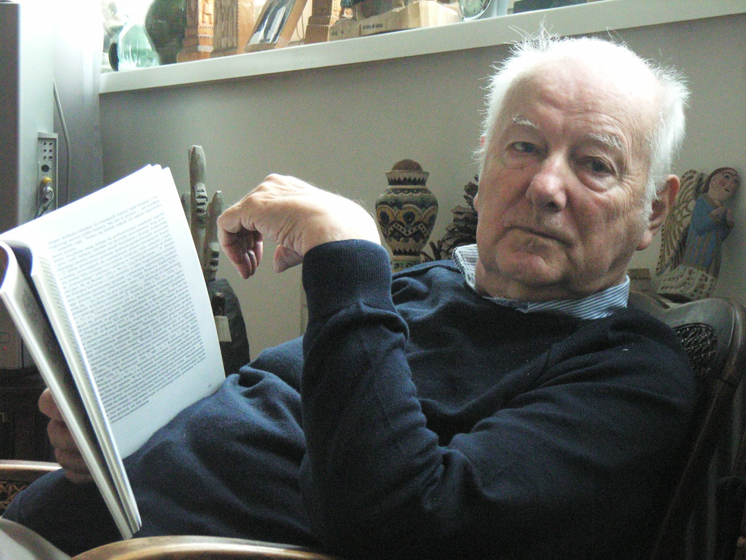 Aleksander Jackowski (1920-2017) - cultural anthropologist, ethnographer, art critic. Vienna 2007-01-03